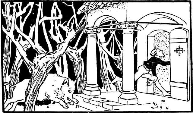 Illustration by Otto Ubbelohde to the fairy tale The Brave Little Tailor